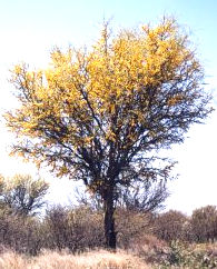 Geoffroea decorticans or chilean palo verde